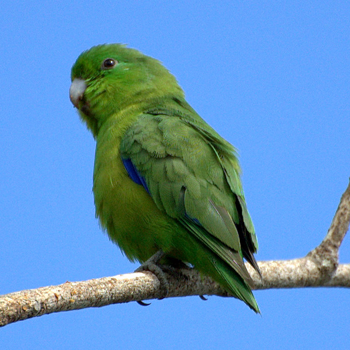 Blue-winged Parrotlet (Forpus xanthopterygius) Vale do Ribeira, São Paulo (state), Brazil.